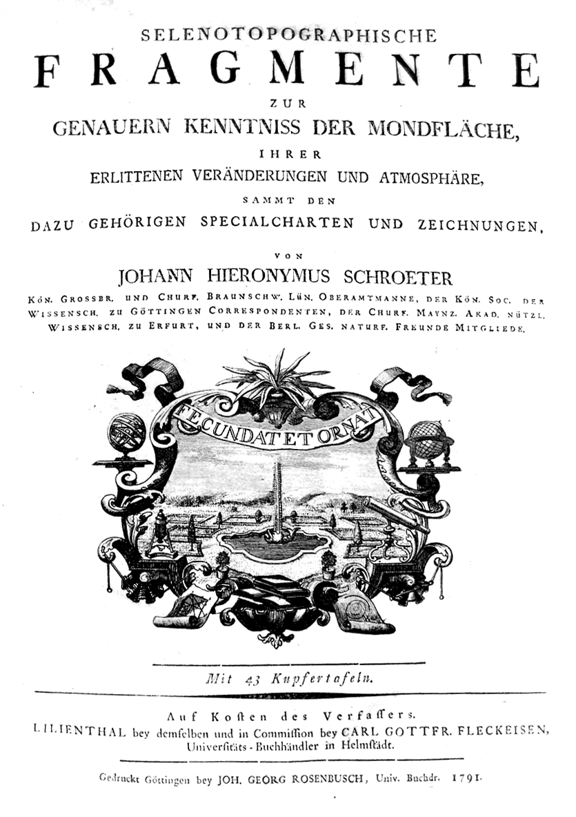 Title page of Johann Hieronymus Schröter's Selenotopographische Fragmente (1791)